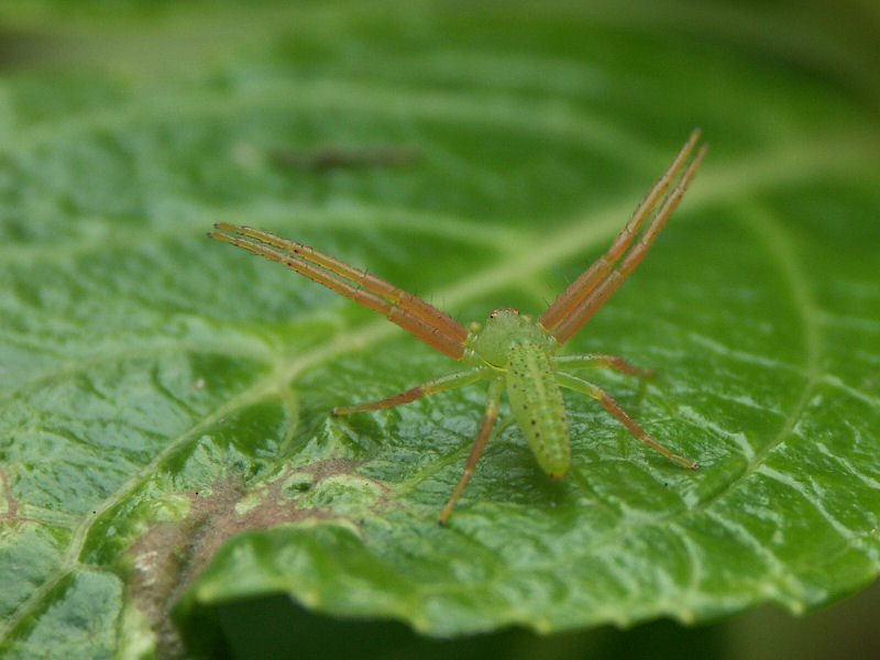 on a leaf of Hydrangea to wait for a catch.